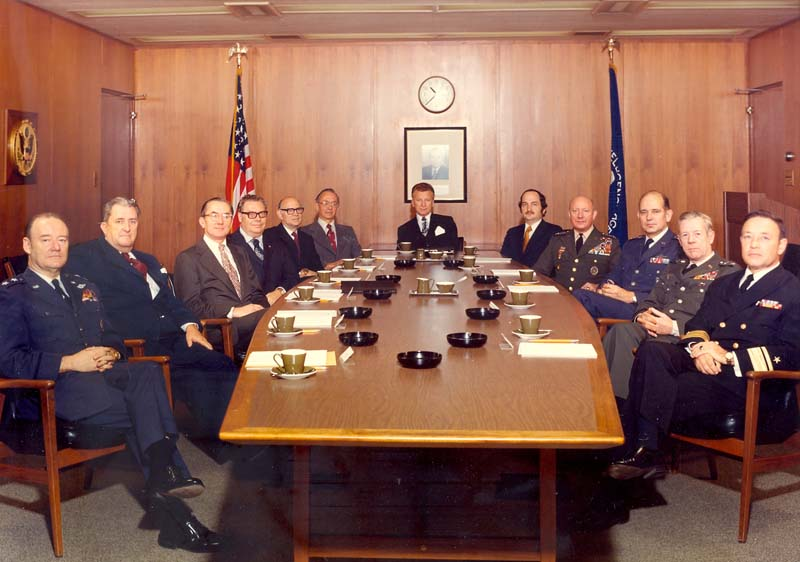 U.S. Intelligence Board, then chaired by Director of Central Intelligence William E. Colby, includes representatives of the organizations which collected and reviewed intelligence before and during the October 1973 War. In November 1973, perhaps at the meeting depicted here, the Board approved the creation of a post-mortem function by the Intelligence Community Staff’s Product Review Division. This photo, taken 20 November 1973, includes (seated left to right): Major General George J. Keegan, USAF, Assistant Chief of Staff, Intelligence, U.S. Air Force Lt. General Vernon A. Walters, USA, Deputy Director of Central Intelligence William E. Colby, Director of Central Intelligence, Chairman, USIB Ray S. Cline, Director of Intelligence and Research, Department of State William N. Morrell, Jr., Department of Treasury Representative Bruce A. Lowe, Executive Secretary of USIB Edward S. Miller, Federal Bureau of Investigation Representative James C. Poor, acting for Major General Edward B. Giller, USAF (ret’d), Atomic Energy Commissioner Representative Lt. General William E Potts, USA, acting for Vice Admiral Vincent P. de Poix, USN, Director, Defense Intelligence Agency Lt. General Lew Allen, Jr., USAF, Director, National Security Agency Major General Harold R. Aaron, USA, Assistant Chief of Staff for Intelligence, Department of the Army Rear Admiral Donald P. Harvey, USN, acting for Rear Admiral Earl F. Rectanus, Director of Naval Intelligence